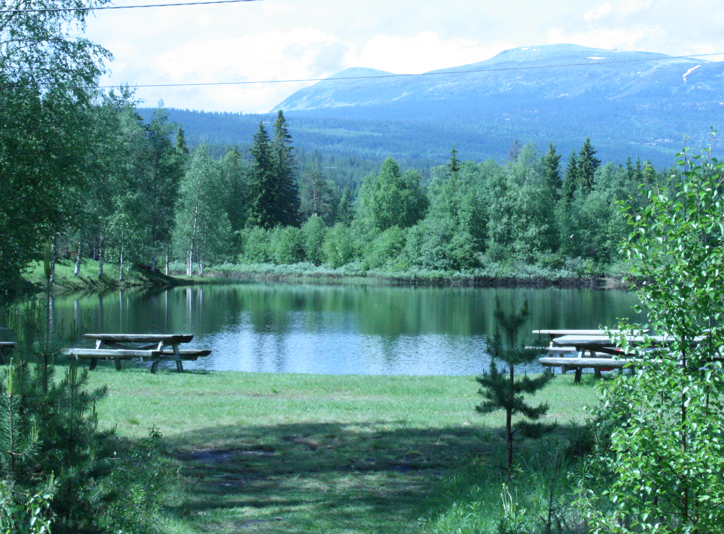 Tjønna Place to swim